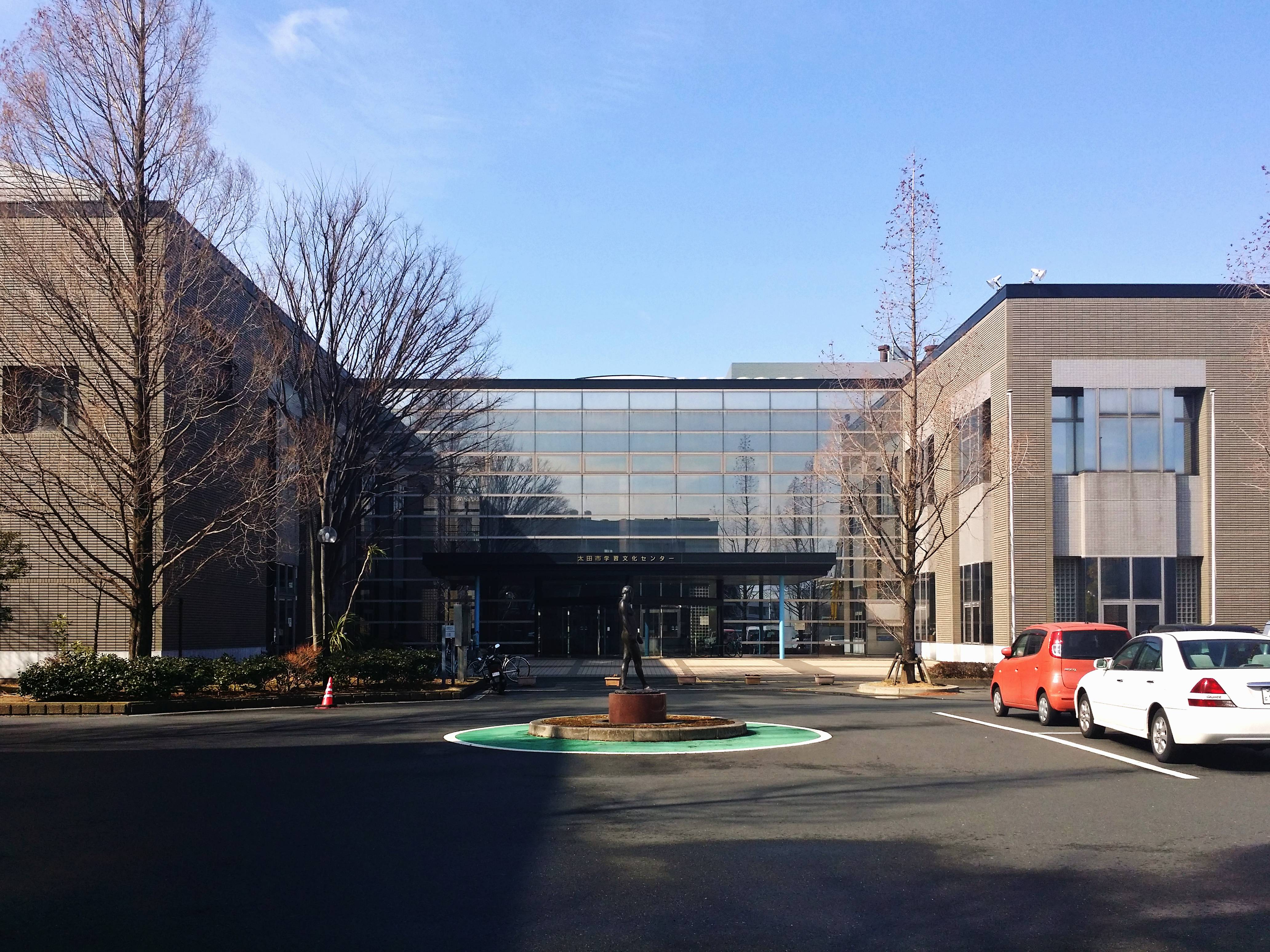 Ota City Culture Study Center.